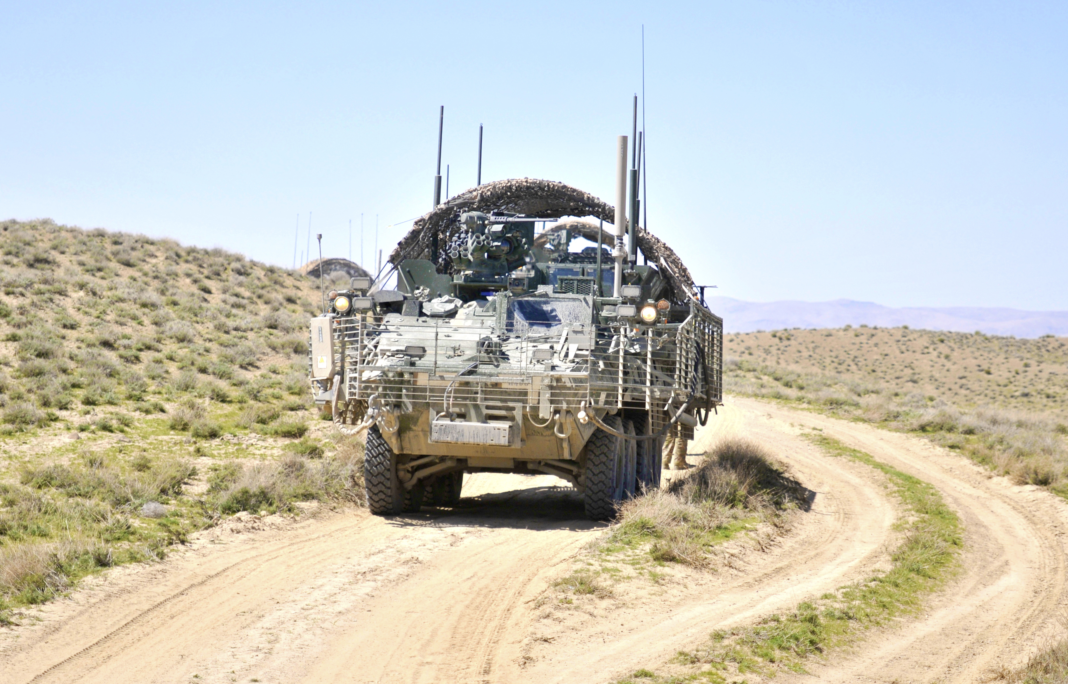 A Stryker armored vehicle manned by U.S. Soldiers with 2nd Battalion, 23rd Infantry Regiment, provides security as Afghan Border Police (ABP) break ground on a new checkpoint in the district of Spin Boldak, Kandahar province, Afghanistan, March 25, 2013. The ABP moved to the new location to block an insurgent infiltration route.